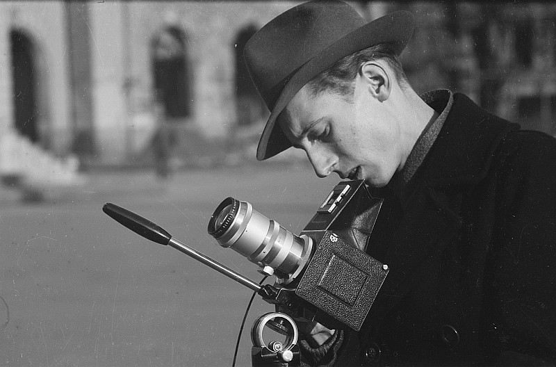 Original image description from the Deutsche FotothekFotograf